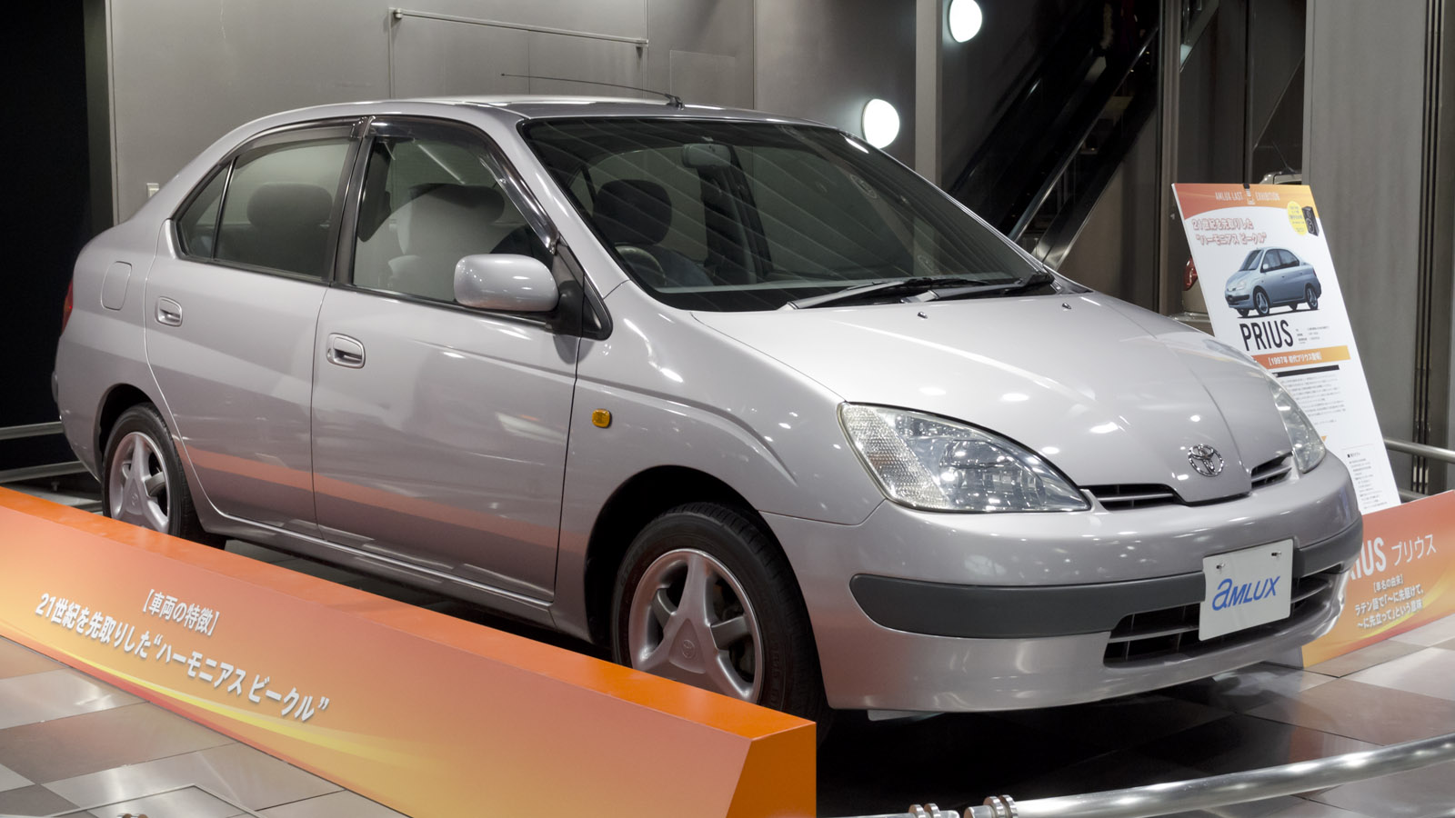 1st generation Toyota Prius